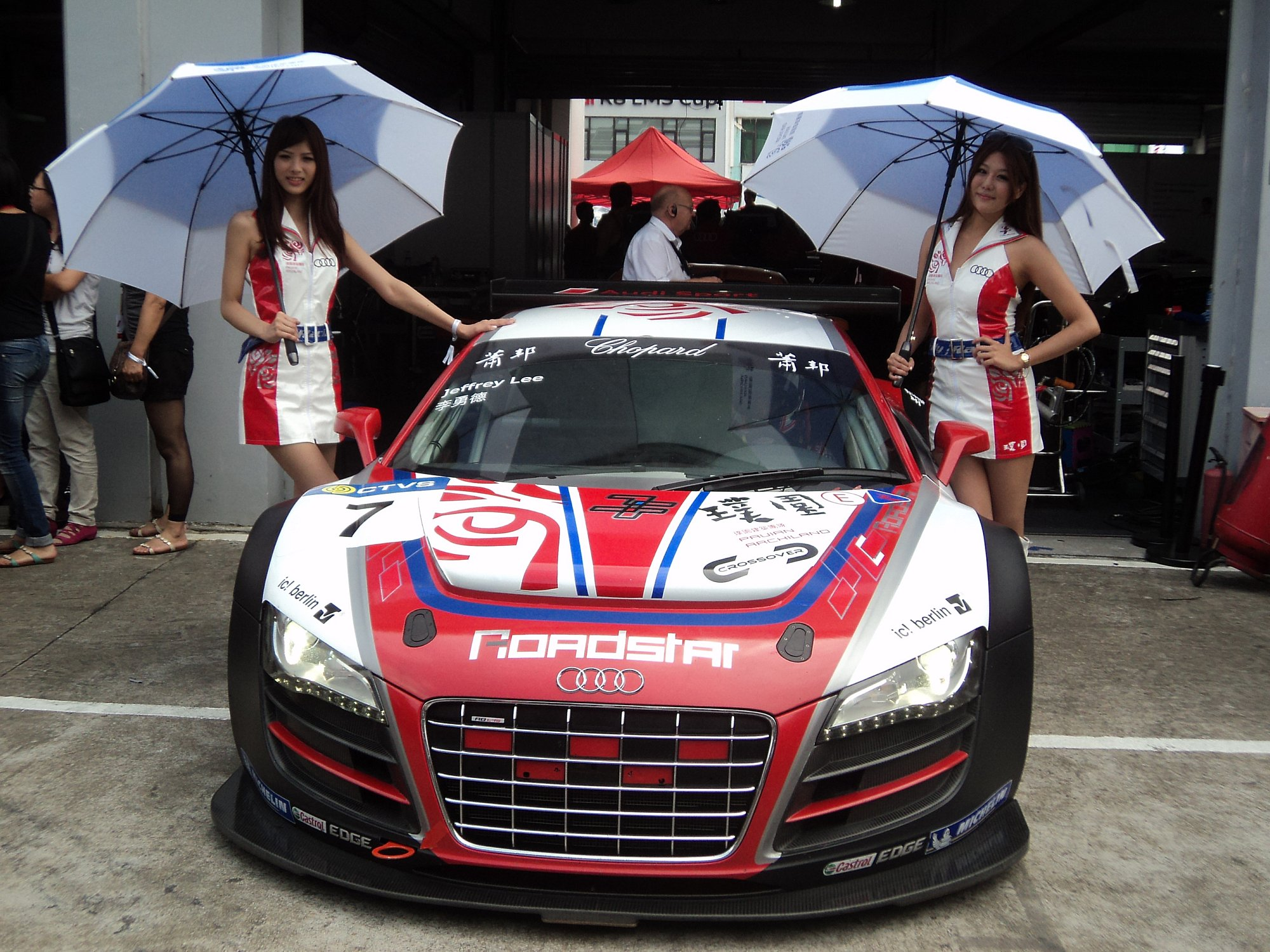 Jeffery Lee's Audi R8 LMS Cup race car at Zhuhai International Circuit in June 2012. 中文（香港）: 李勇德的奧迪R8 LMS賽車。2012年6月在珠海國際賽車場拍攝。